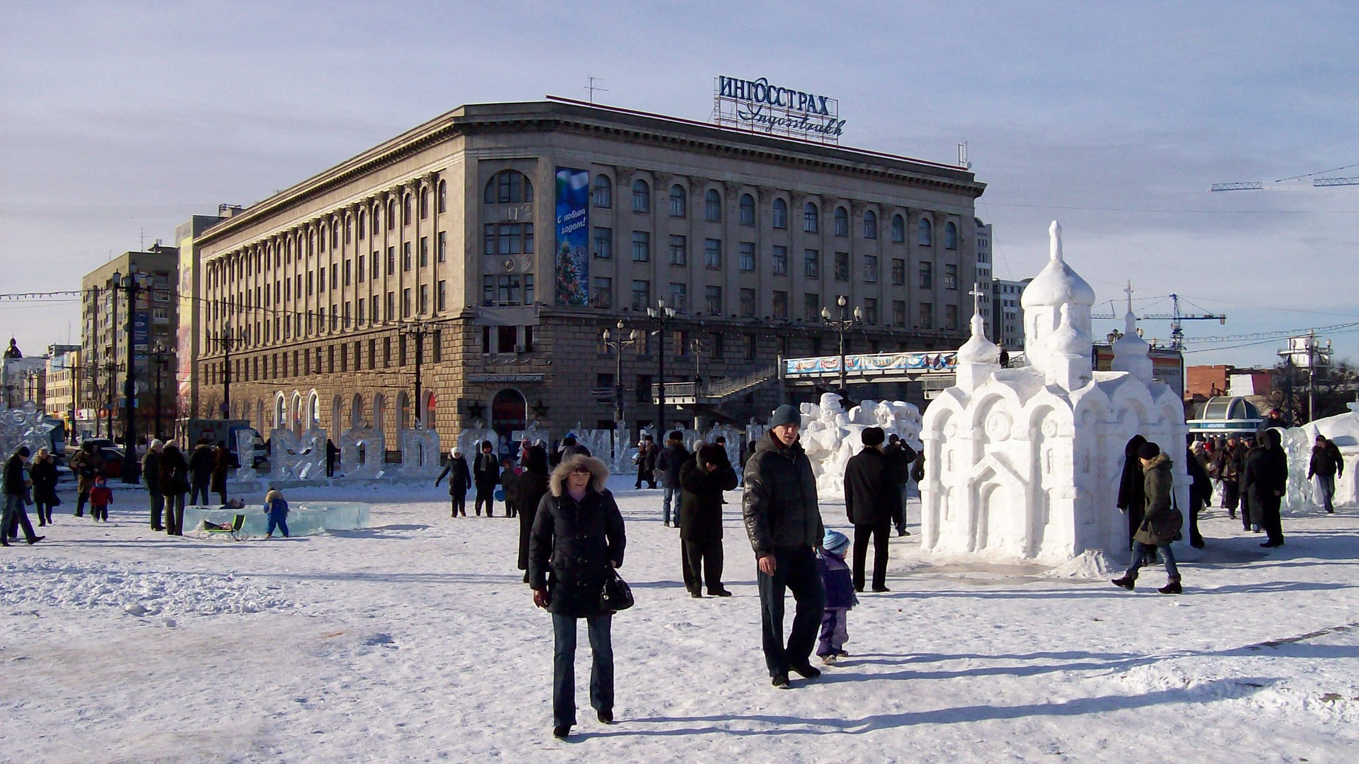 Far Eastern Academy of Public Administration, Khabarovsk, Russia.